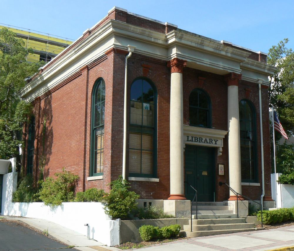 The David S. Walker Library in Tallahassee, Florida. This building is on the U.S. National Register of Historic Places.